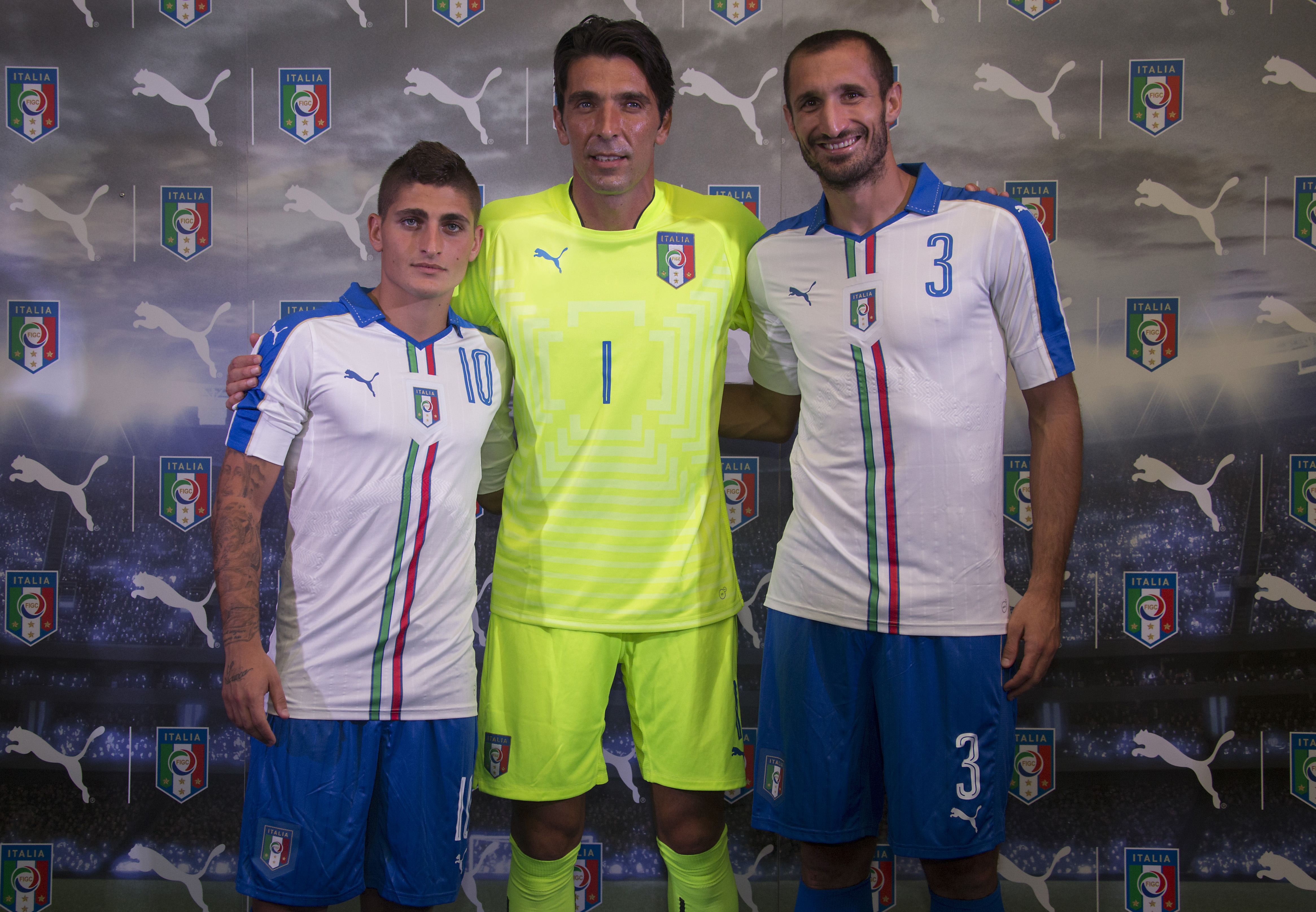 Florence, Italy (September 3, 2015). From left to right: Marco Verratti, Gianluigi Buffon and Giorgio Chiellini at the 2015-16 FIGC & PUMA Away kit launch.